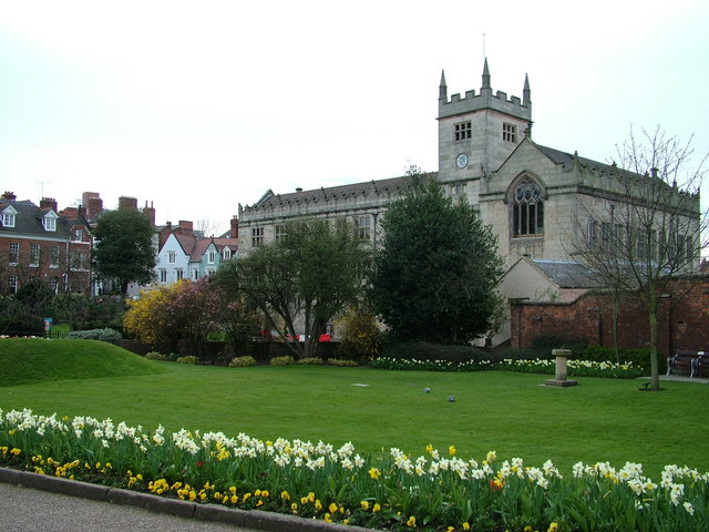 The Library (formerly Shrewsbury School) Taken from the castle grounds in spring.